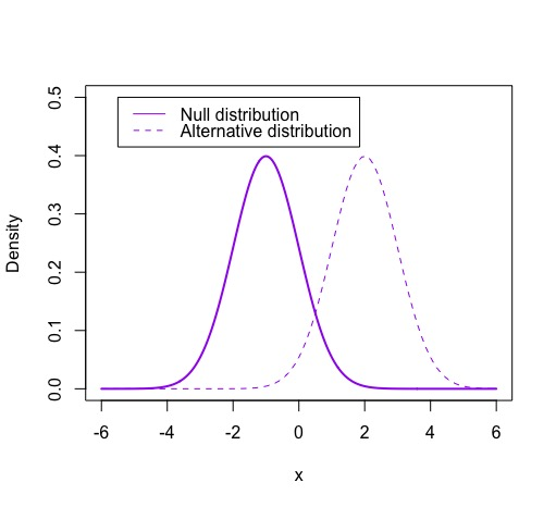 a graph two different normal curves representing null and alternative distribution. Two normal distributions have different means/locations, but same variances/scales